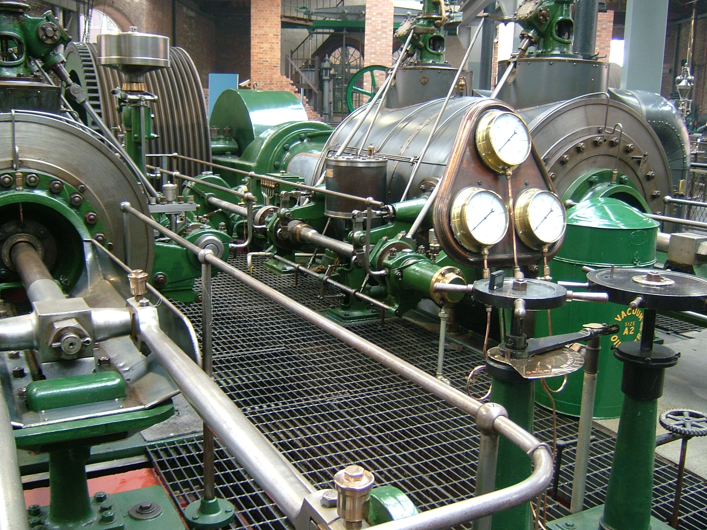 W & J Galloway & Sons, Knott Mill Iron Works, Manchester built this 600 hp, cross compound horizontal condensing engine for Elm Street Mill Burnley, it is now displayed in the Museum of Science and Industry (Manchester).